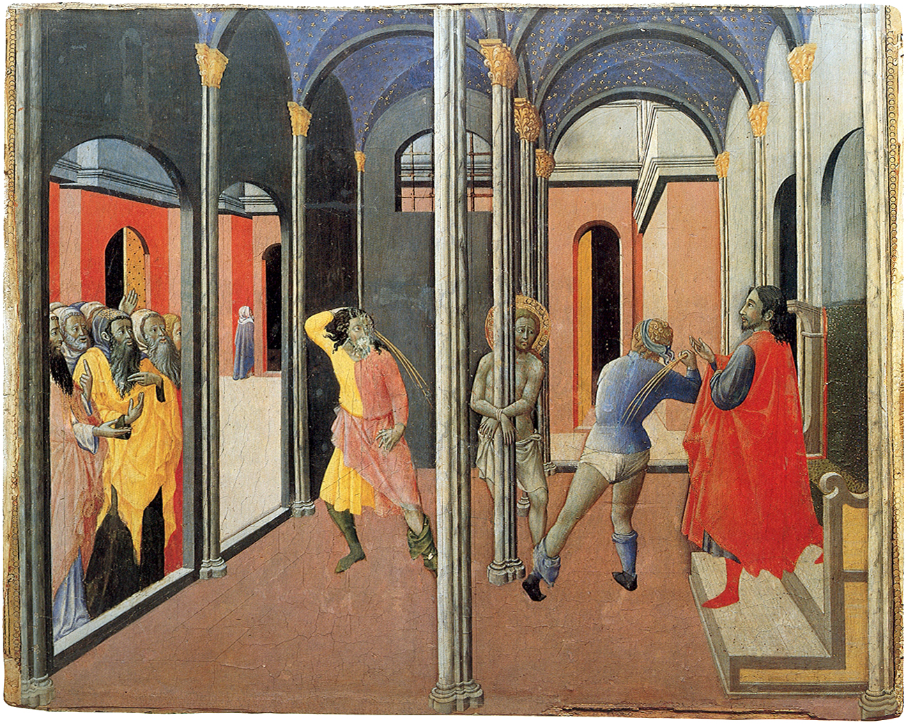 Master Osservanza, Flagellation of Christ, about 1440-1444 Tempera and gold on panel, 36.5 x 45.7 cm Rome, Vatican, Vatican Museums.